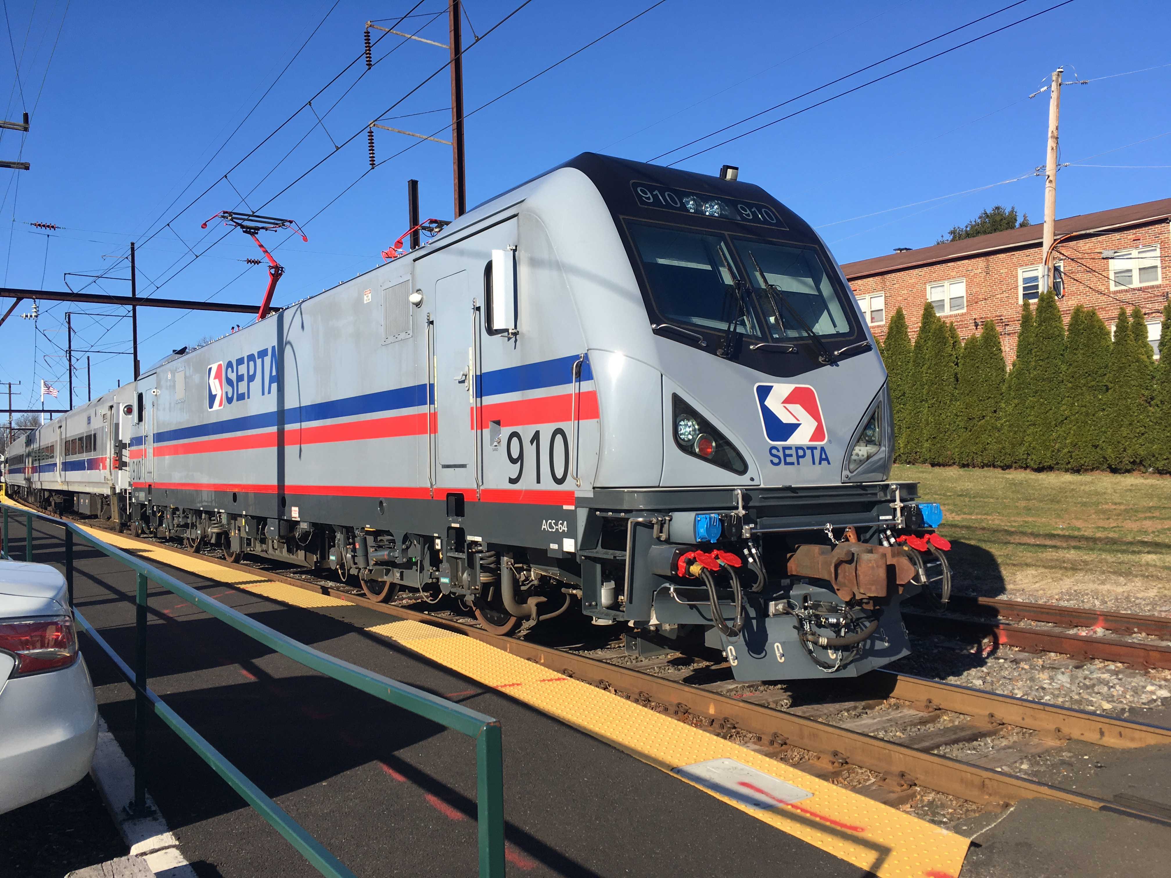 SEPTA Siemens ACS-64 910 leads an inbound Warminster Line train bound for Center City Philadelphia out of the Hatboro Station in Hatboro, Pennsylvania